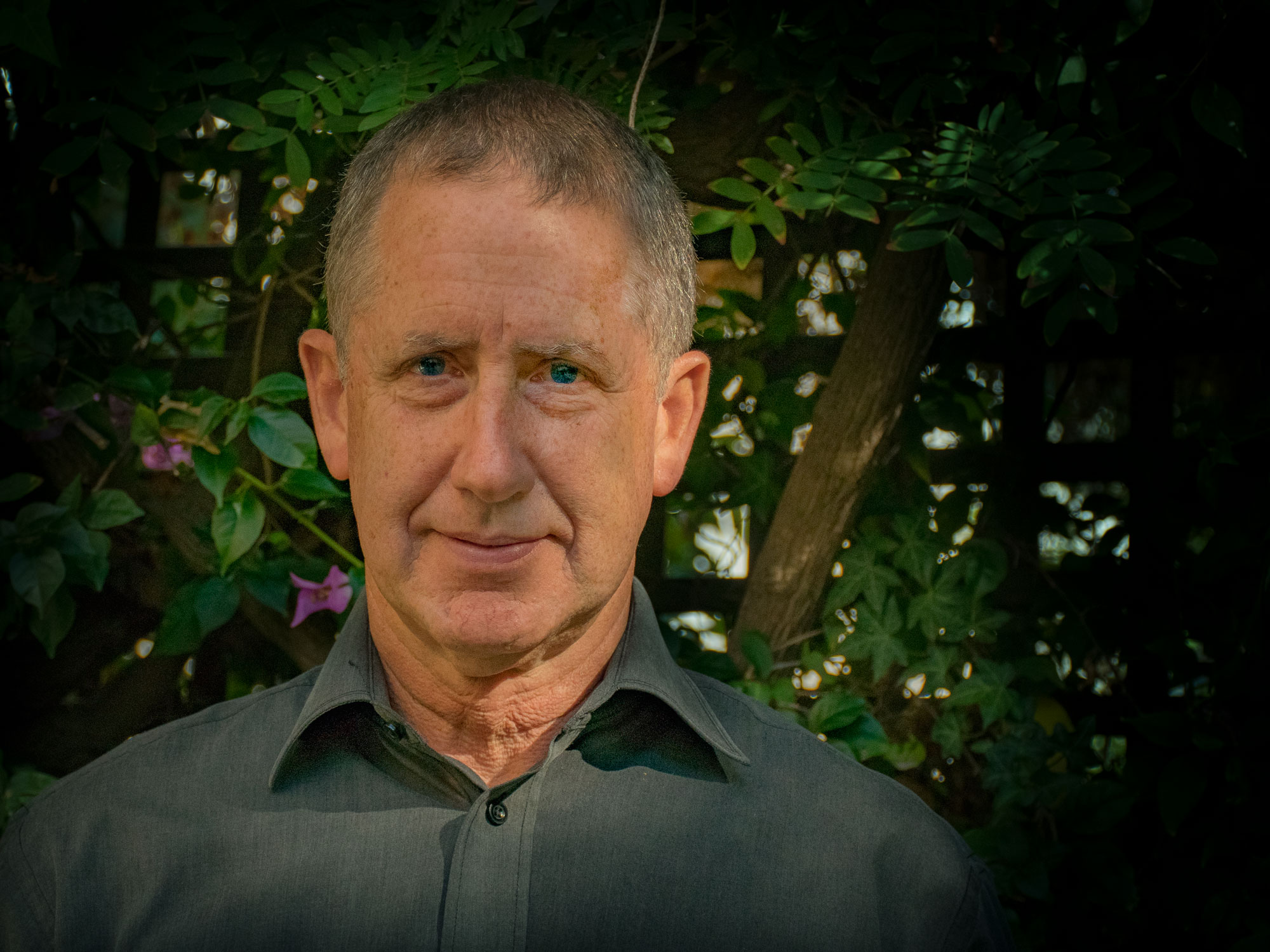 Prof. Yoav Shoham